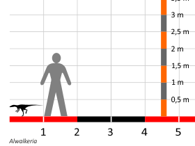 Alwalkeria